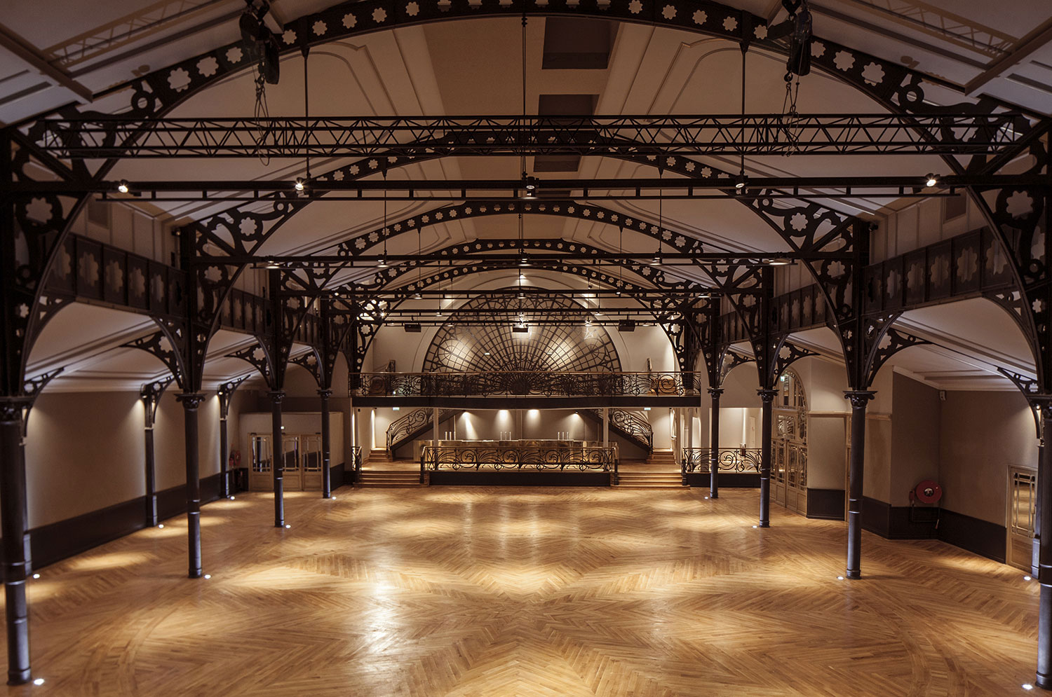 main room of the theater Elysée Montmartre in Paris